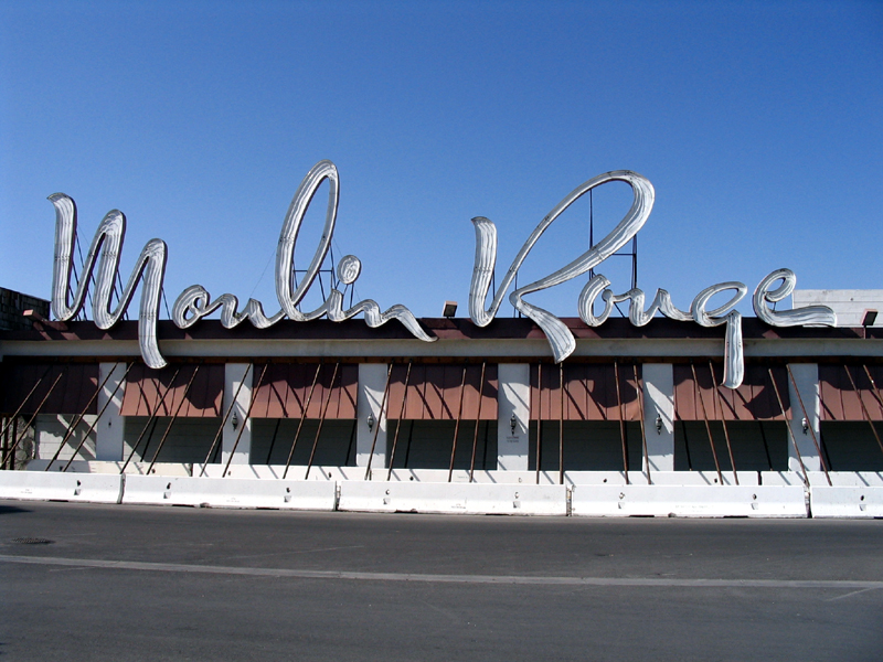 Daytime photograph of the sign of the closed Moulin Rouge hotel & casino.